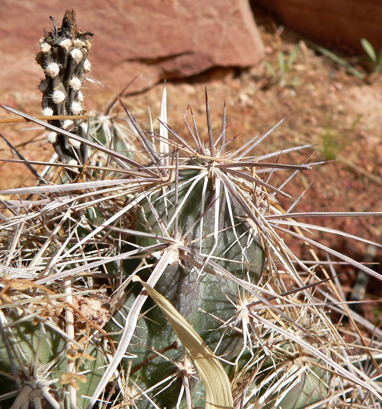 Grusonia emoryi at the Springs Preserve garden, Las Vegas, Nevada